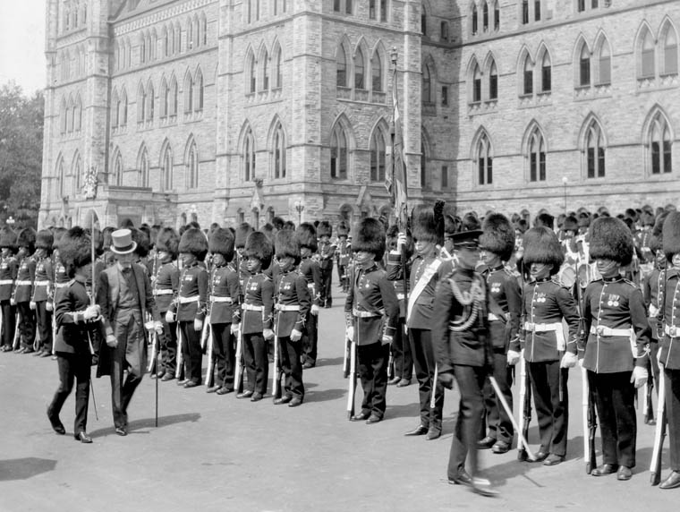 His Excellency Viscount Willingdon inspects the Governor General's Foot Guards drawn up on the Parliament Hill in Ottawa, Ontario